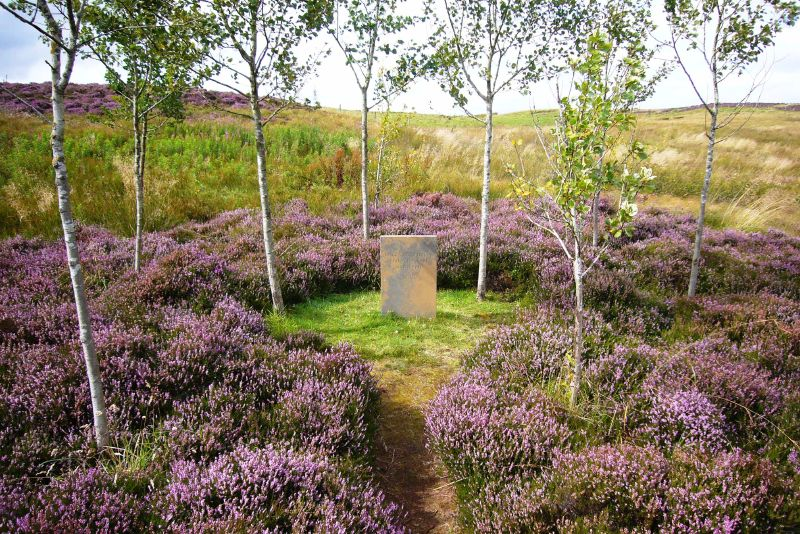 sculpture/object by Ian Hamilton Finlay at Little Sparta in Scotland/U.K.